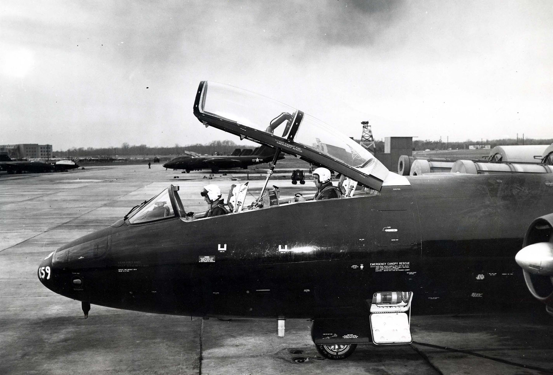 Martin B-57C Canberra side view detail. Forward fuselage of B-57C (SN 53-3825, aircraft no. 159)